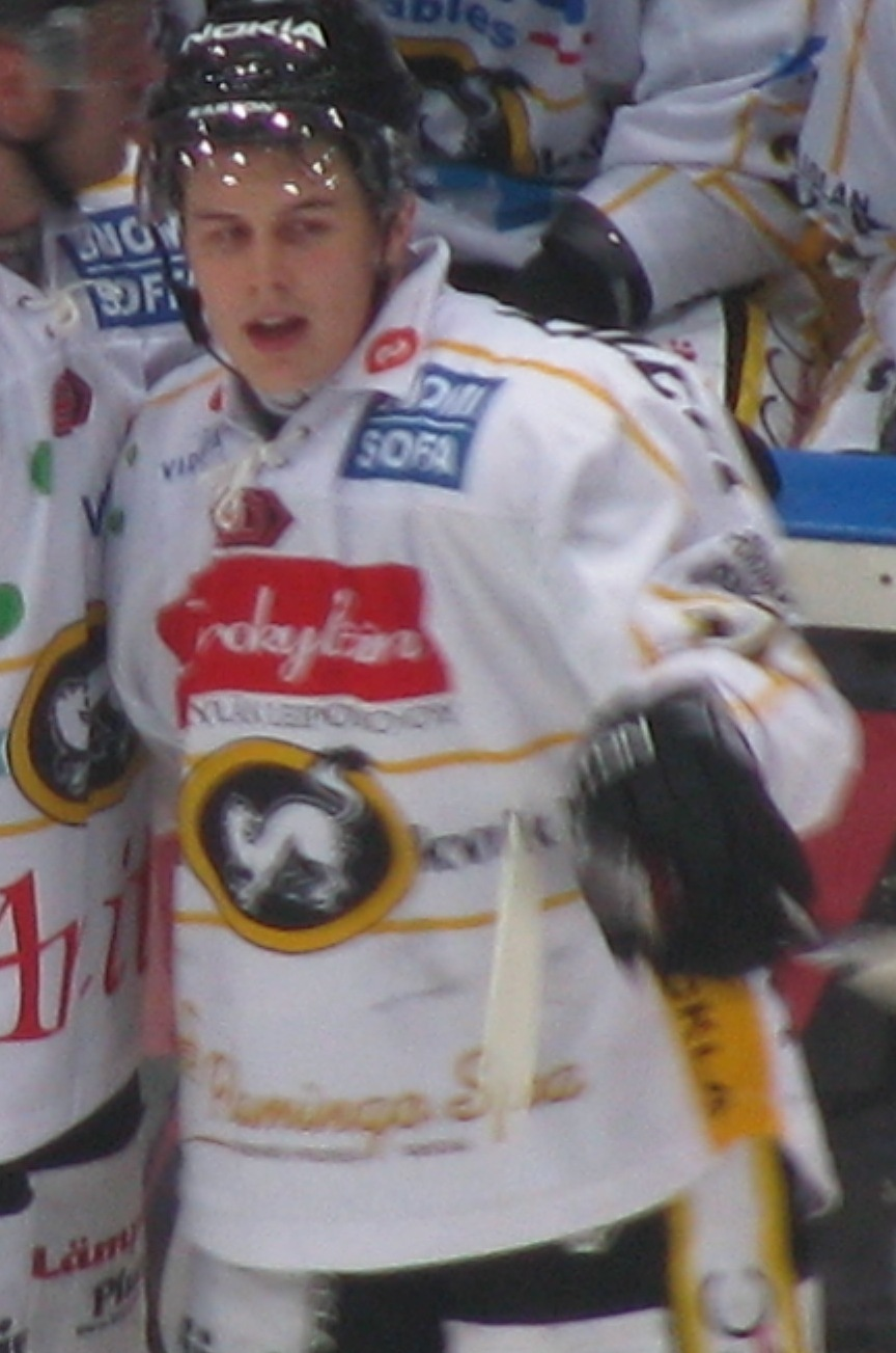 Kristian Kuusela of Kärpät